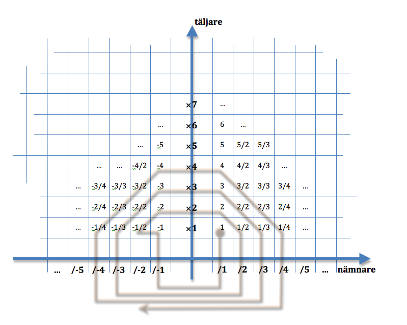 Illustration of how the rational numbers may be ordered and counted. Illustration contains a grid and an arrow, and two Swedish words (the words for "nominator" and "denominator").